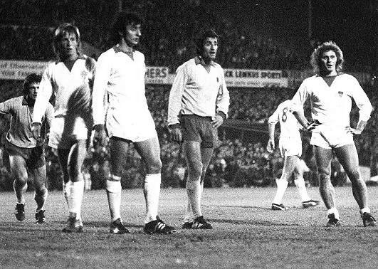 Cape Town City v Hellenic at Hartleyvale Stadium